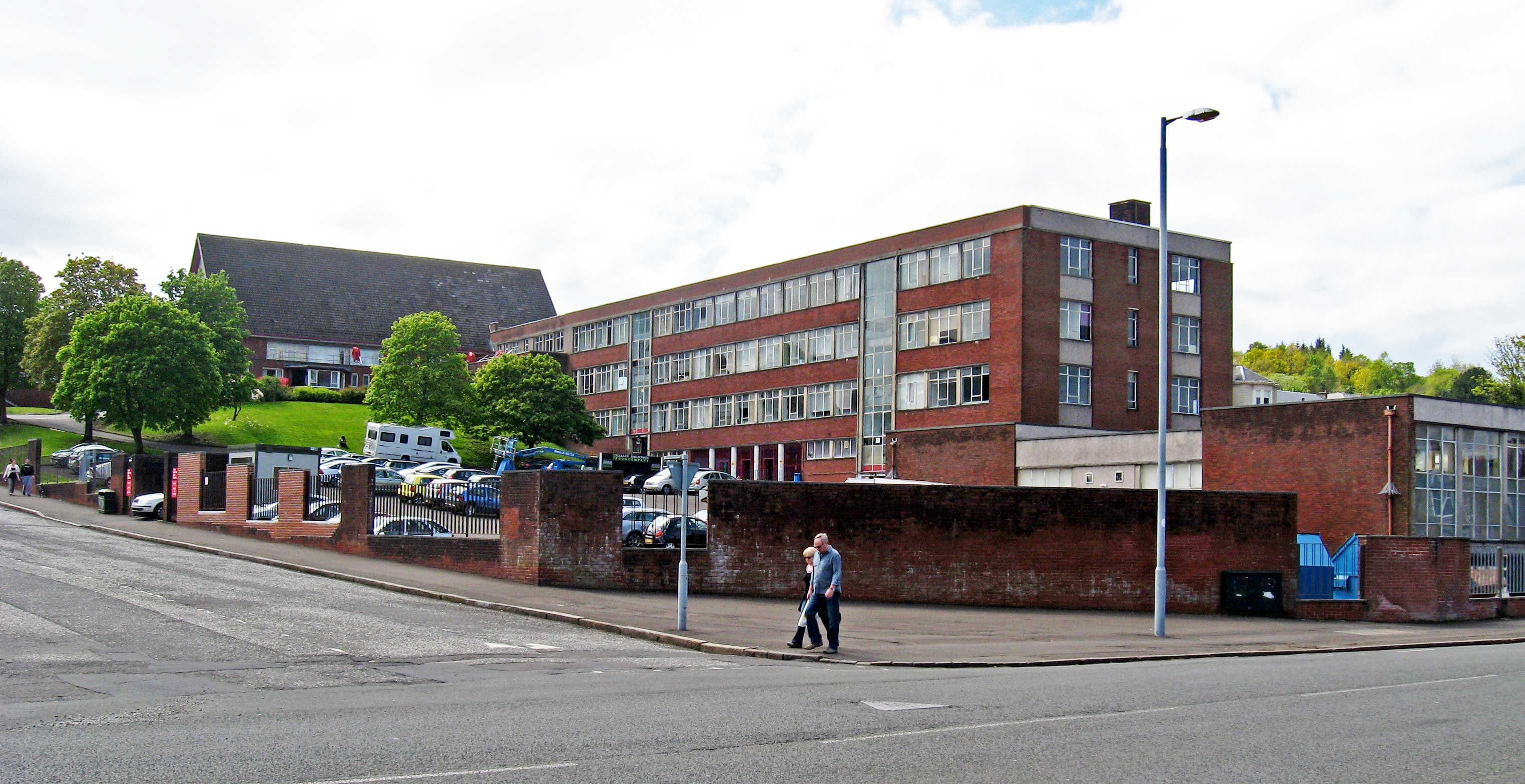 Greenock Academy buildings, adapted for Waterloo Road (BBC TV series). View from Newark Street, looking south up Madeira Street.